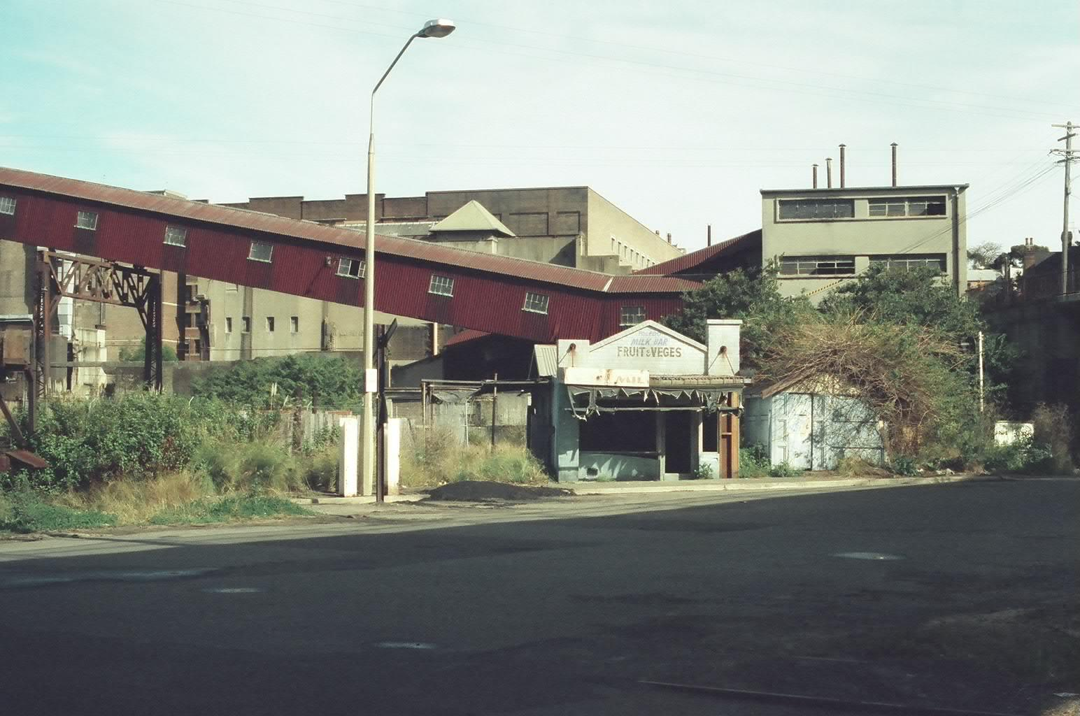 Strictly Ballroom, film-set location for Fran's family business and residence,Pyrmont. c1991.